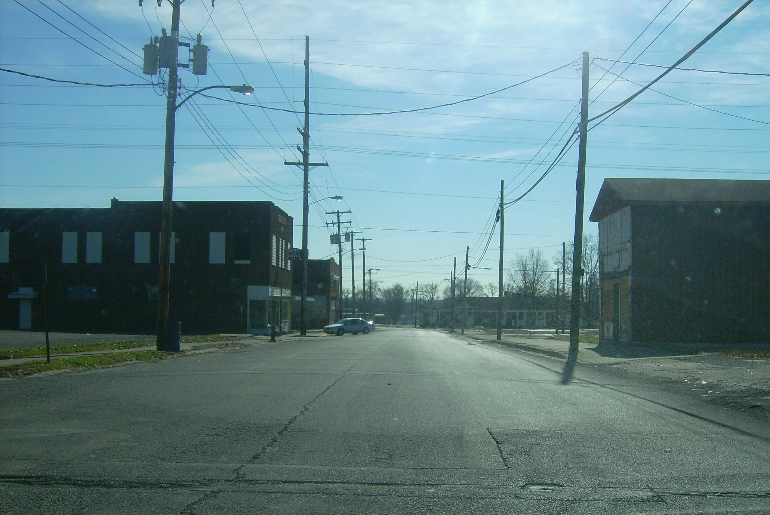 Self-made photo of Main St, Carrier Mills. Notice trolley lines under asphalt.